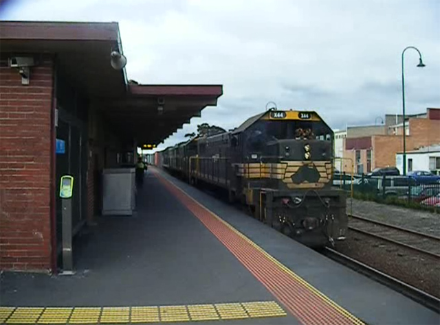 Maryvale Freighter @ Morwell Station